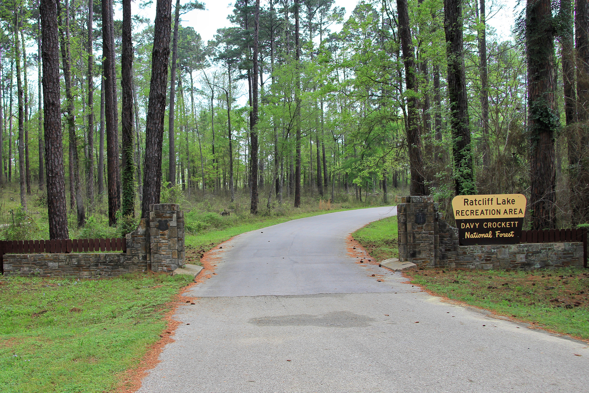 The Ratcliff Lake Recreation Area entrance portal near Ratcliff, Texas, United States.